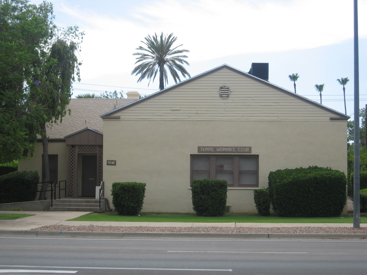 Since 1936, this building has served as a social center and clubhouse for the Tempe Woman's Club, which has been in operation since 1913. It was added to the National Register of Historic Places in 2000.